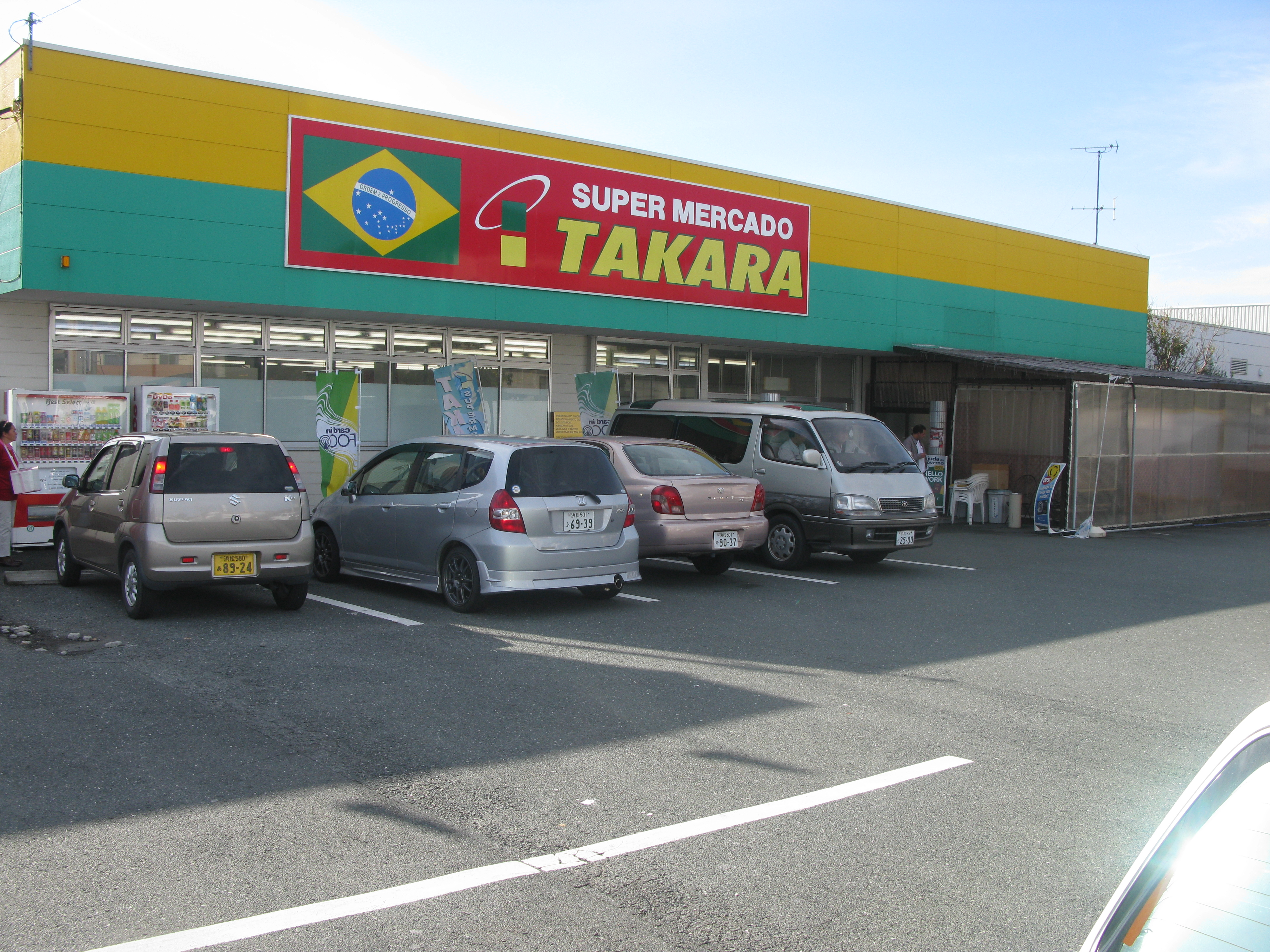 Takara supermarket in Takaoka town, Hamamatsu city